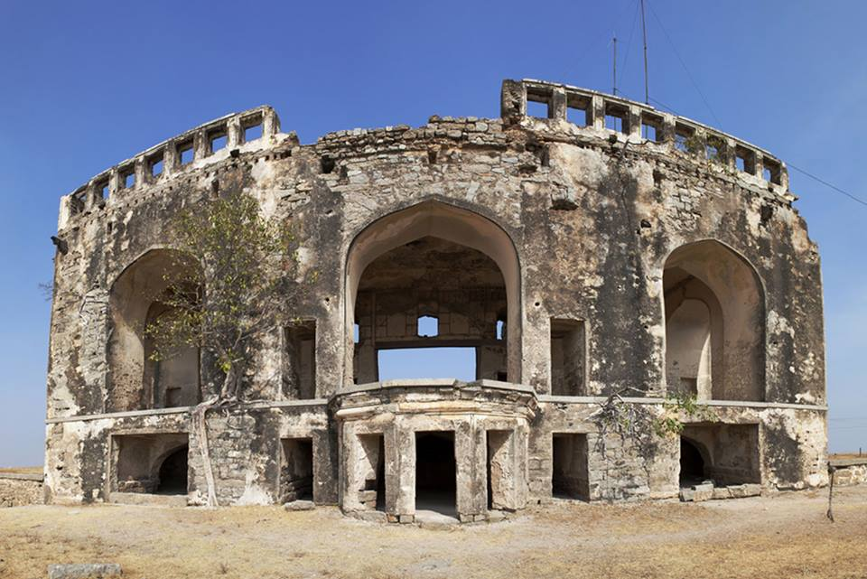 భువనగిరి కోట